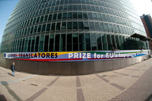 Banner for European Commission translation contest (Juvenes Translatores), displayed on EU HQ building in Brussels